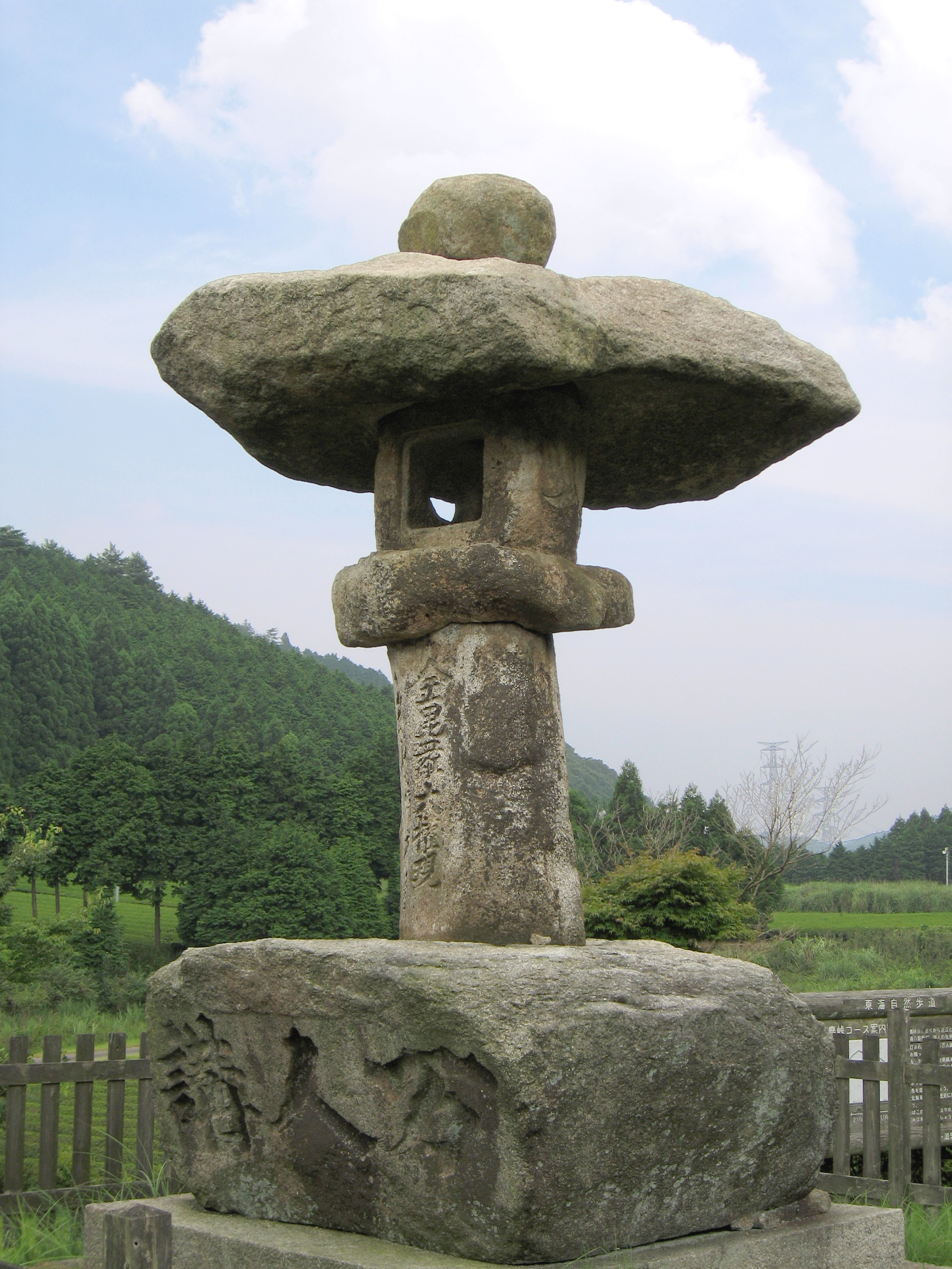 Manninkō-Jōyatō (A Stone lantern at Suzuka Pass of Tōkaidō) I took this image at Yamanaka Tsuchiyama Kōka, Shiga Pref., Japan.